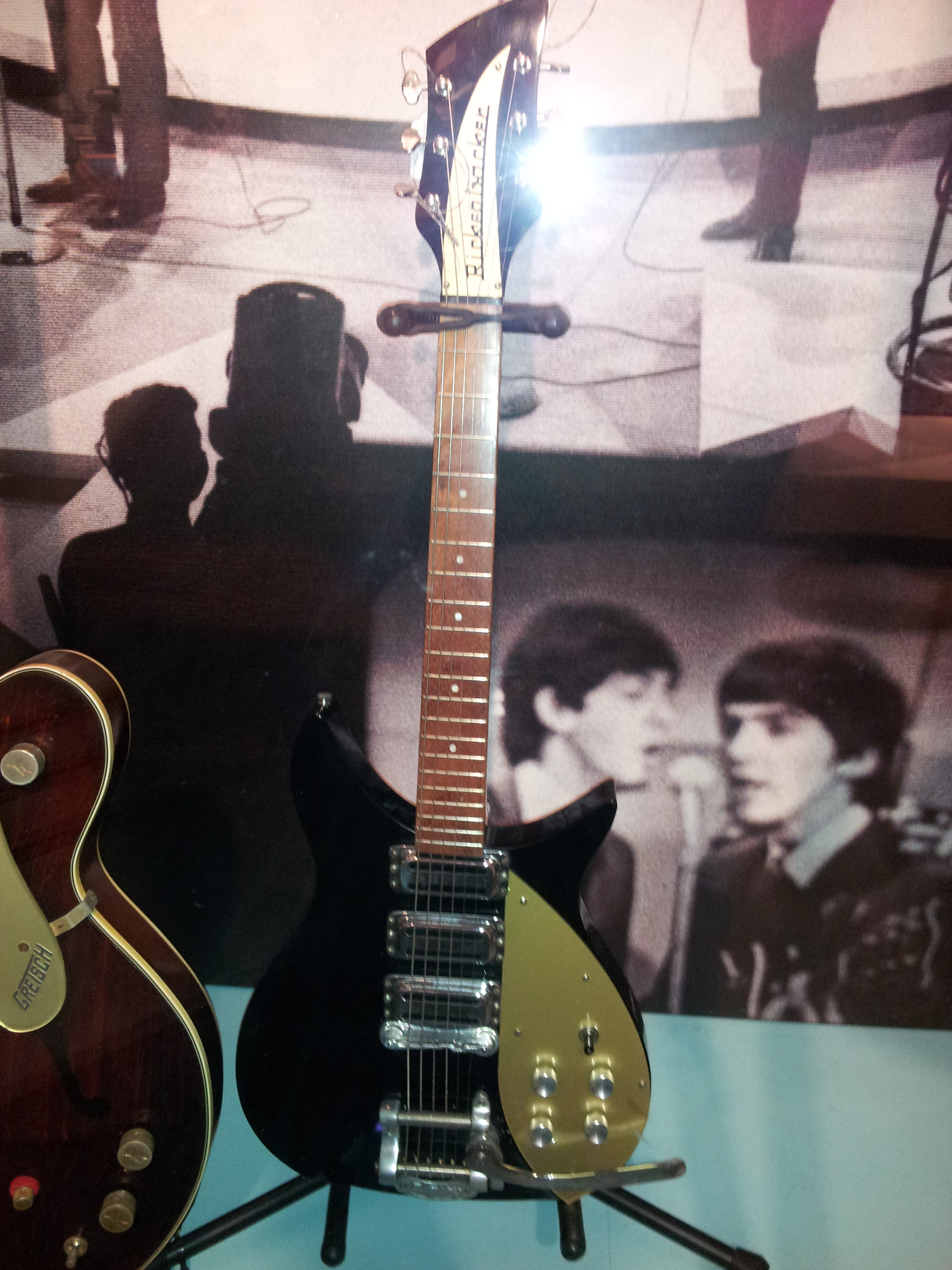 Rickenbacker 325 guitar, Museum of Making Music “as used by the Beatles” —doryfour